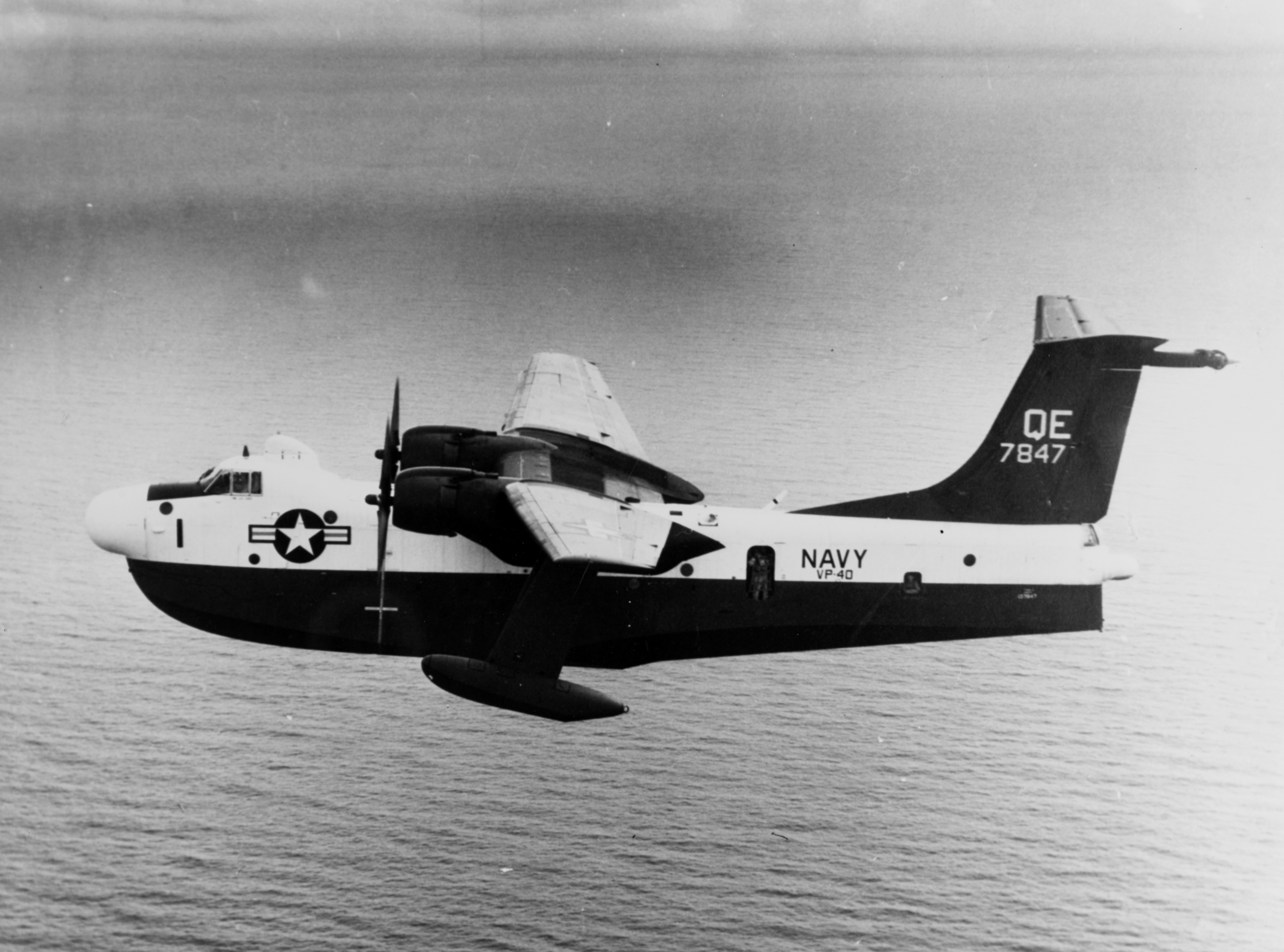 A U.S. Navy Martin P5M-2 Marlin (BuNo 137847) from Patrol Squadron 40 (VP-40) in flight.